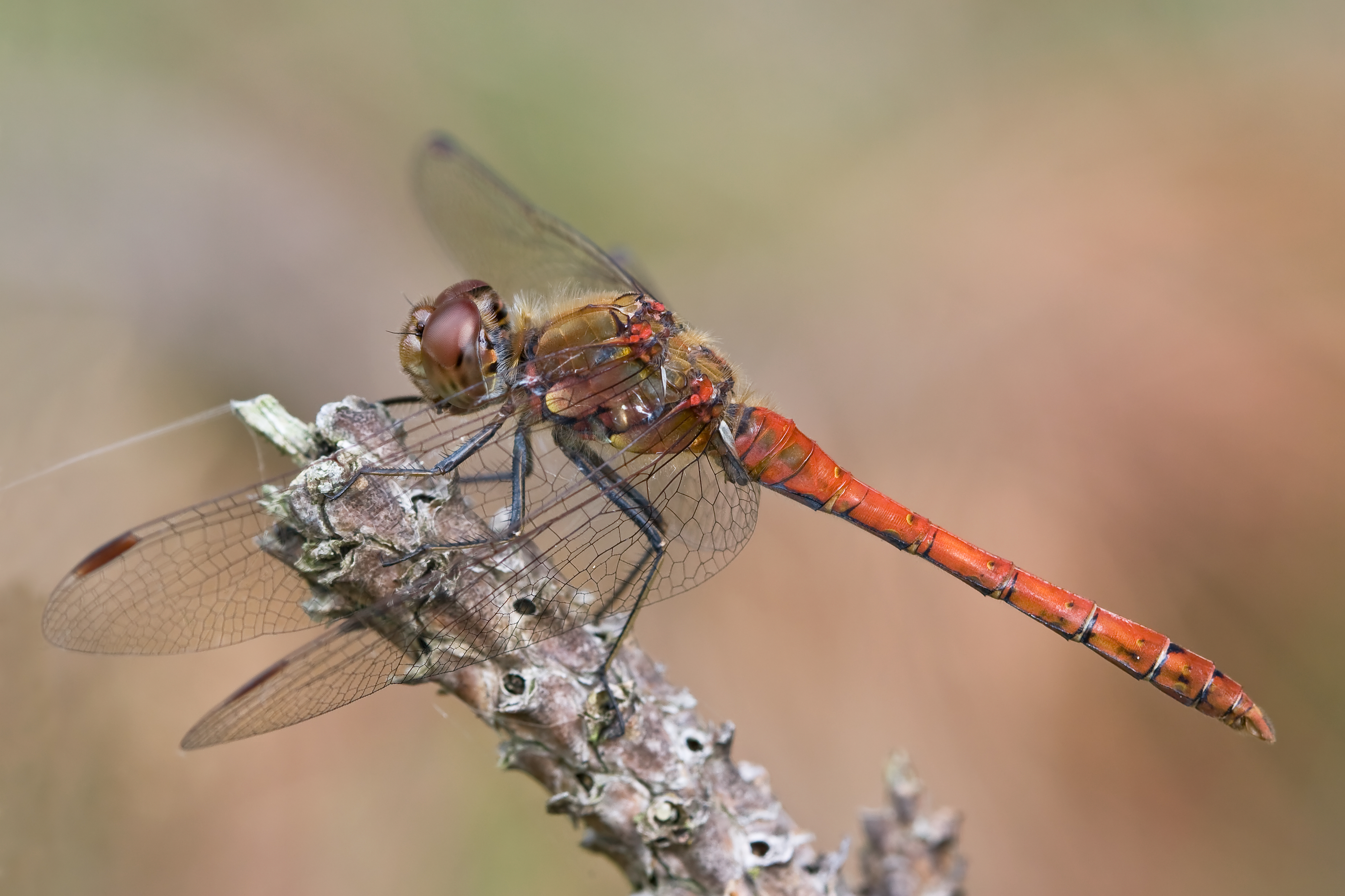 Male Common Darter (Sympetrum striolatum) in the Spangener Heide, part of the nature reserve Cuxhavener Küstenheiden, northern Lower Saxony, Germany. Consider the bright Thorax-side bandages and the forehead drawing, ending at the eyes which distinguishes the Common Darter from the very similar Vagrant Darter (Sympetrum vulgatum).